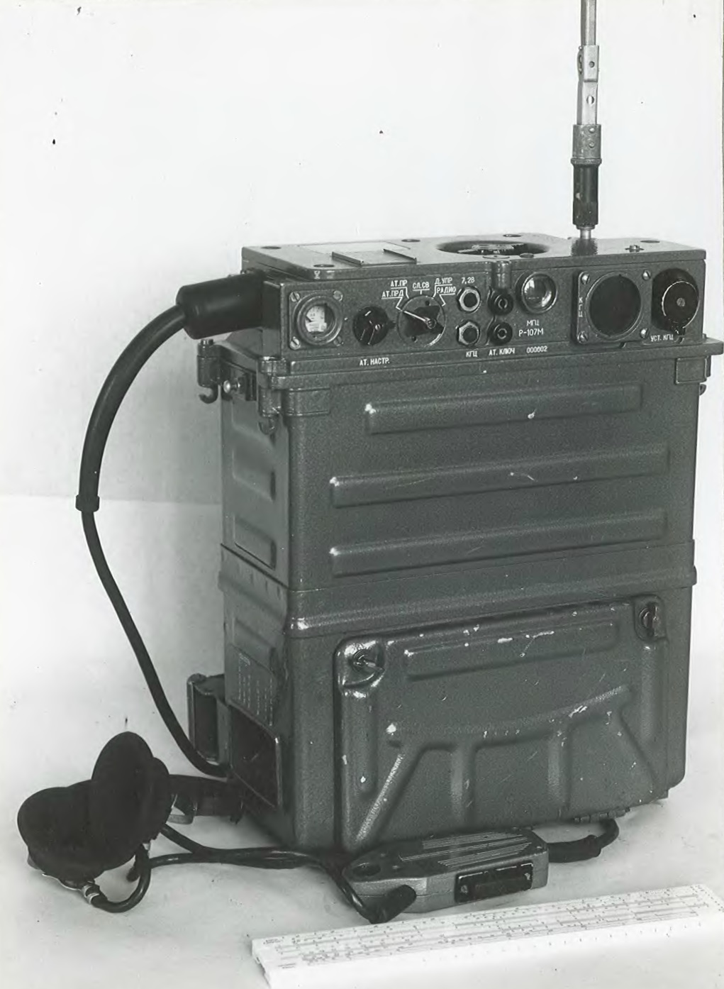 Military radio station: R-107M, HF/VHF tactical communications (20 to 52 MHz.